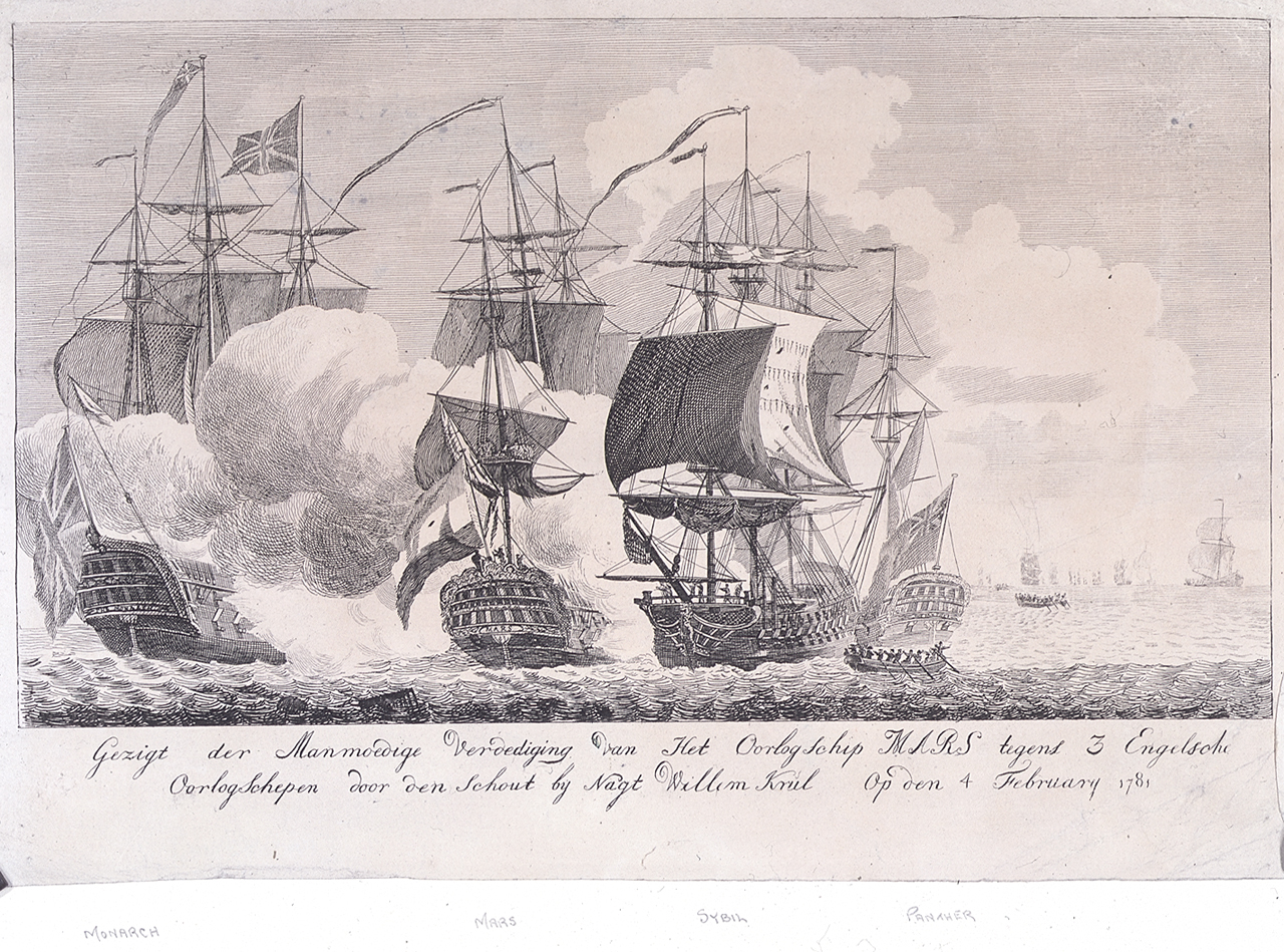 Stout defence of warship Mars against 3 English warships on 4 February 1781, by Nagt Willem Krul: Monarch, Sybil with Panther take Dutch Mars; etching